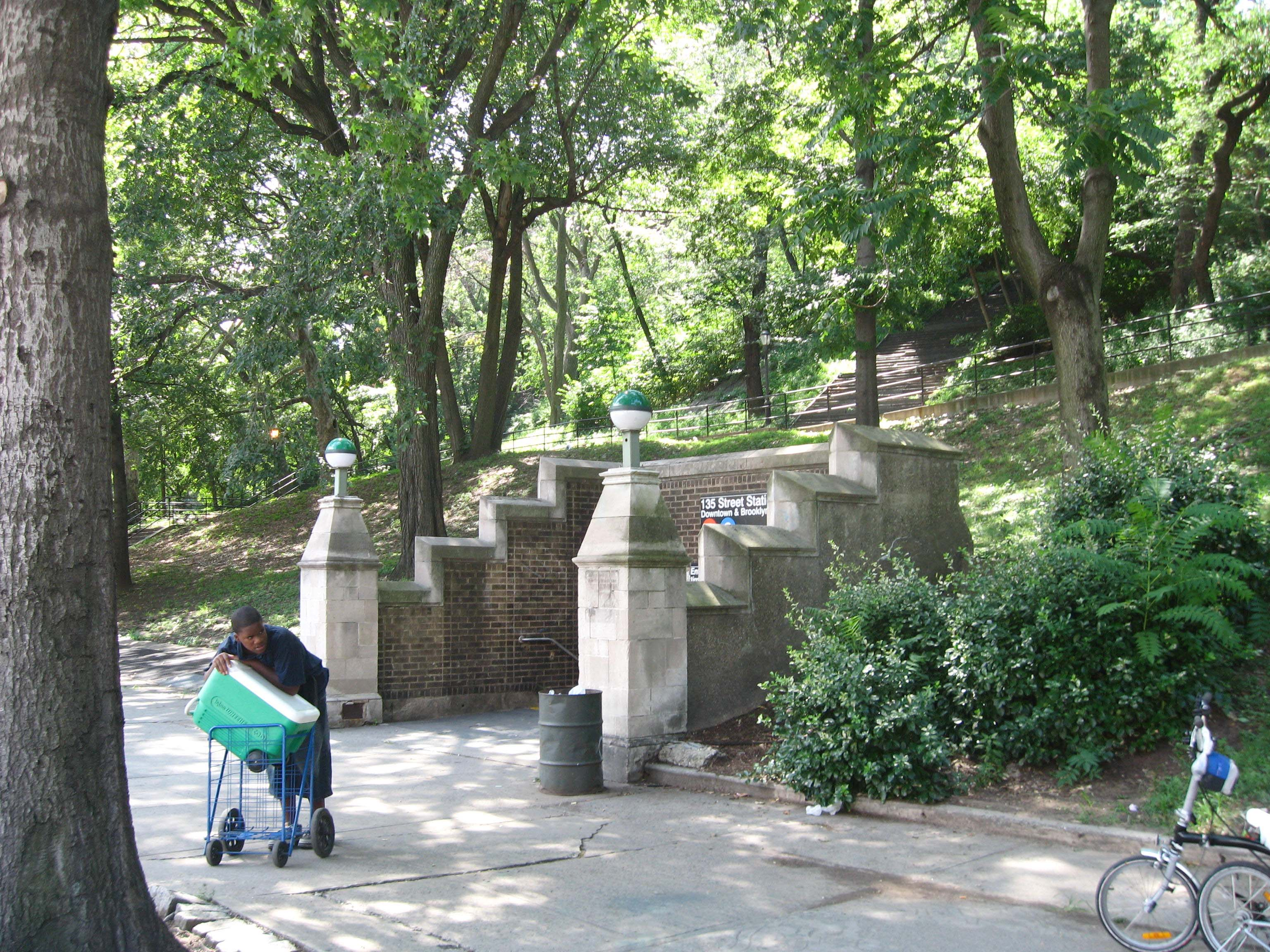 Looking southwest at en:135th Street (IND Eighth Avenue Line) southbound entrance at 137th Street in St Nicholas Park on a mostly sunny midday